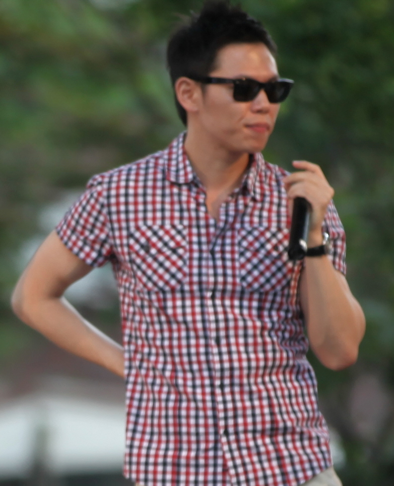 Cho PD in Yongsan, Seoul, South Korea, July 2010